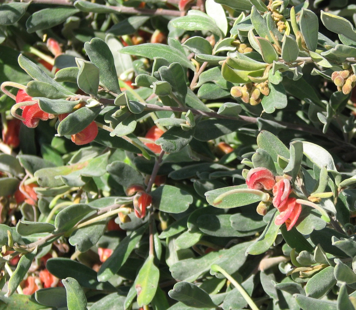 Grevillea arenaria subsp. canescens (cultivated, labelled) Victoria, Australia